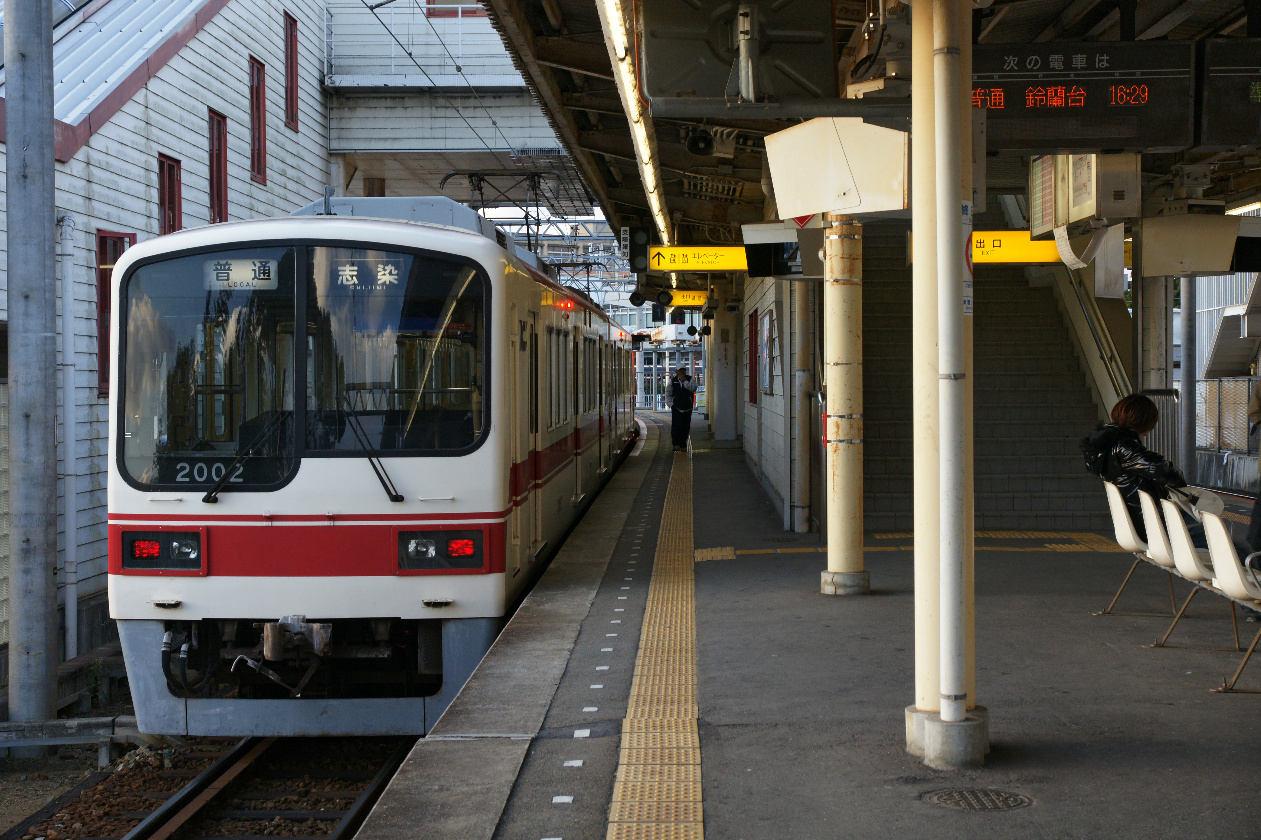 Ono Station in Ono, Hyogo prefecture, Japan.